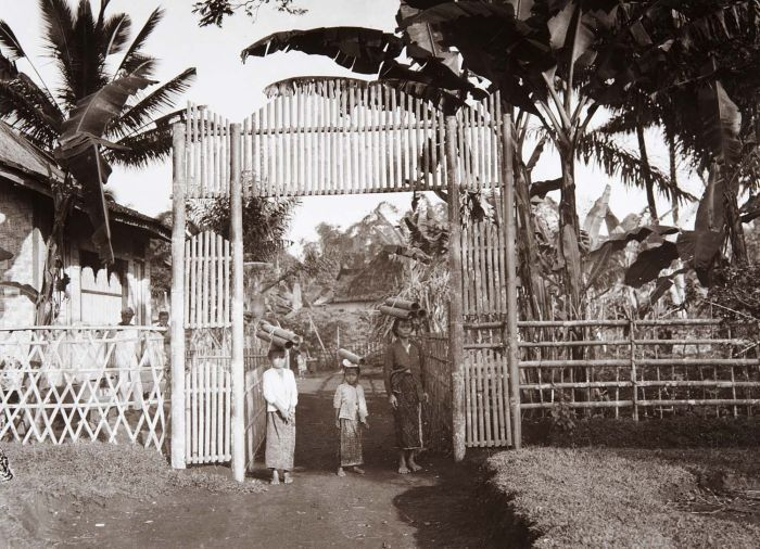 Water-carriers at Panjalu